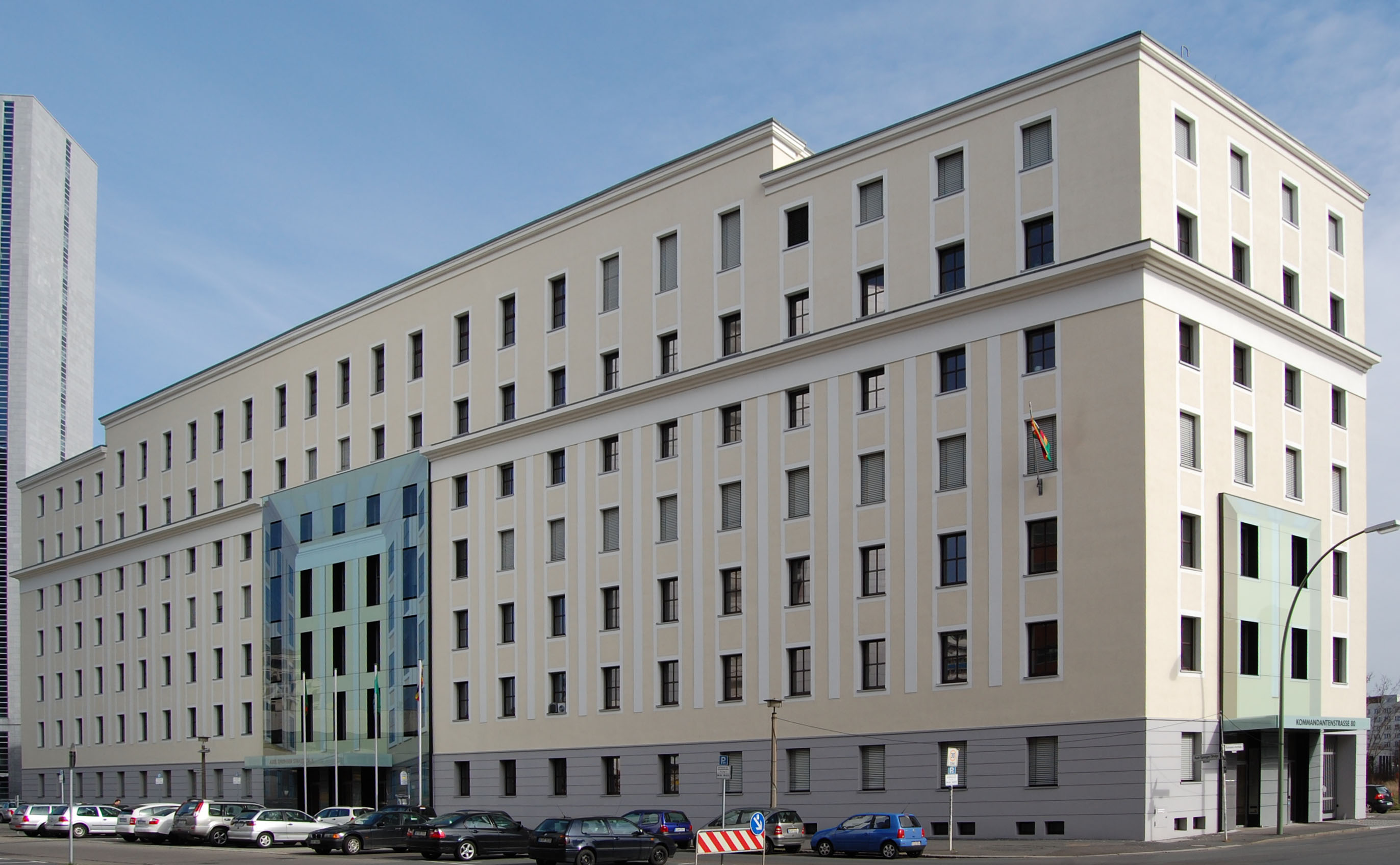 Publishers House Volk und Wissen in Berlin with Embassies of Zambia, Mauretania, Zimbabwe and Azerbaijan in Berlin